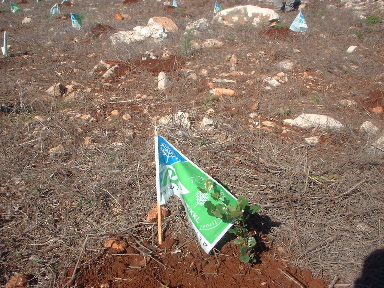 A tree which was just planted as part of the JNF program.